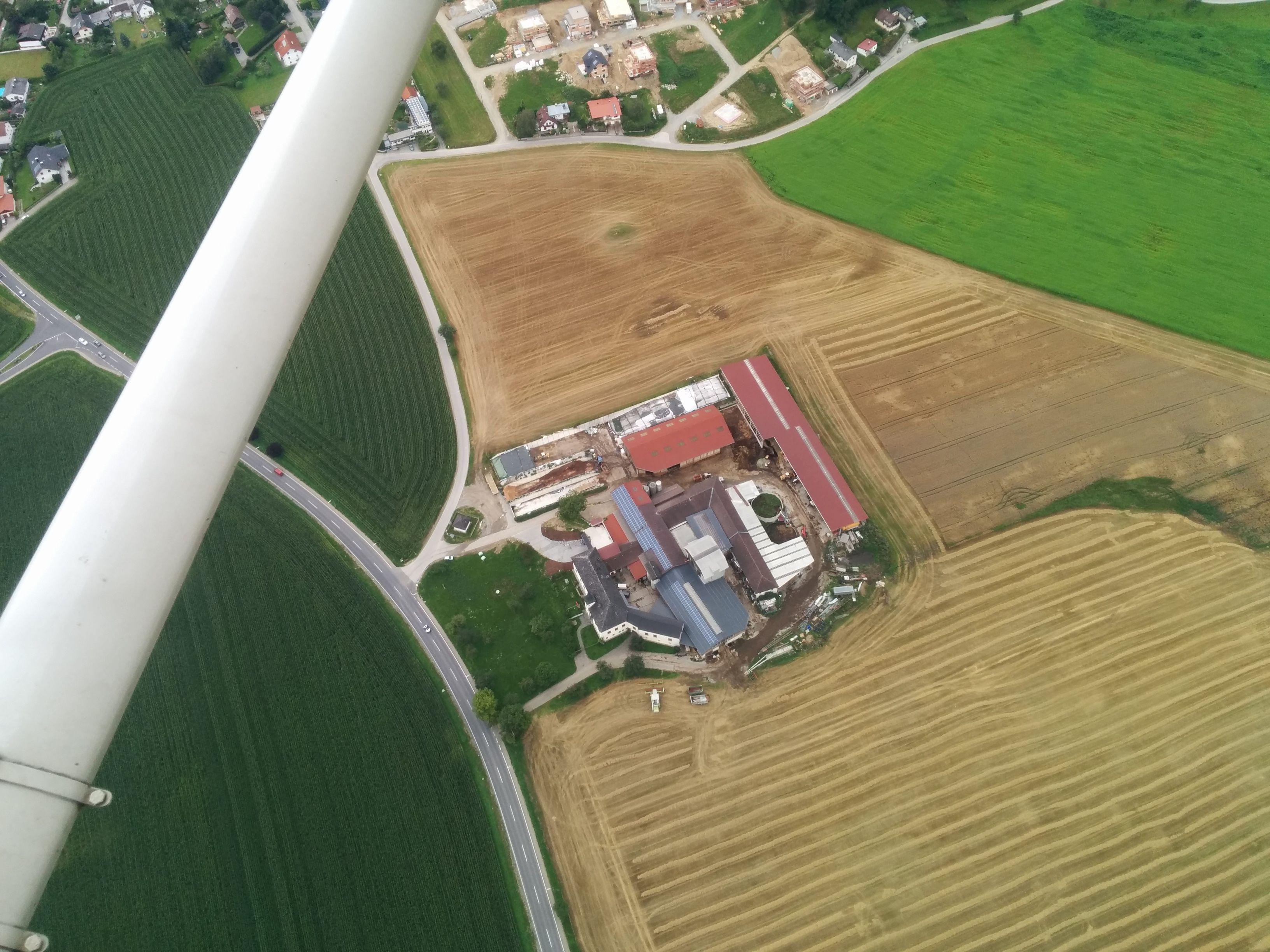 Fuchsenhof from above